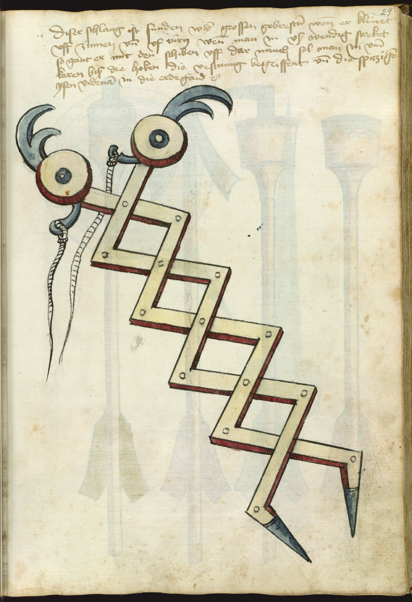 The Ms.Thott.290.2º is a fencing manual written in 1459 by Hans Talhoffer for his own personal reference and illustrated by Michel Rotwyler.